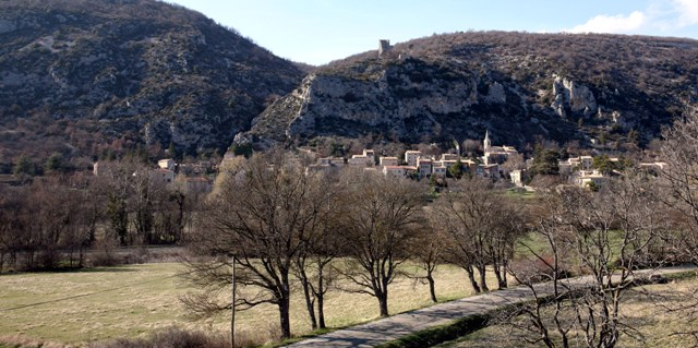 the village of Monnieux, France